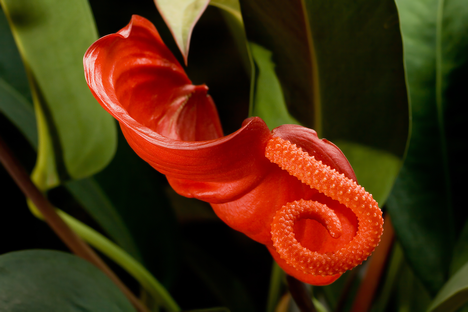 Anthurium scherzerianum inflorescence, located indoors. Camera data Camera Canon EOS 400D Lens Canon EF 70-200mm f4L w/ 12mm extension tube Flash Shoot through umbrella above right, fill below left Focal length 118 mm Aperture f/11 Exposure time 1/200 s Sensivity ISO 100